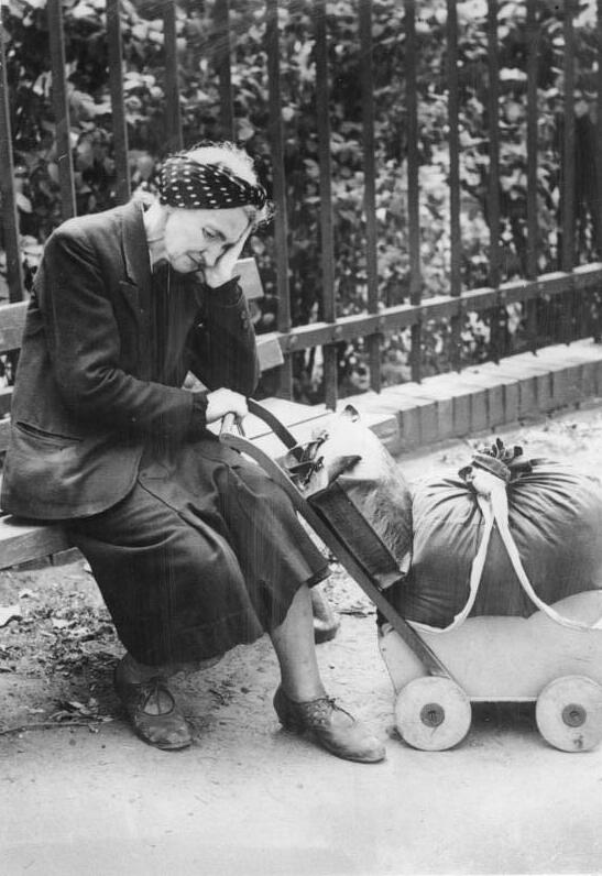 Grief Stricken german woman. An aged german woman, overcome by the worry of trying to find a home, breaks down and cries, head in hand. In her other hand she weeps on the wooden bench, she holds the shifts of a small hand-barrow containing her few scant belongings.